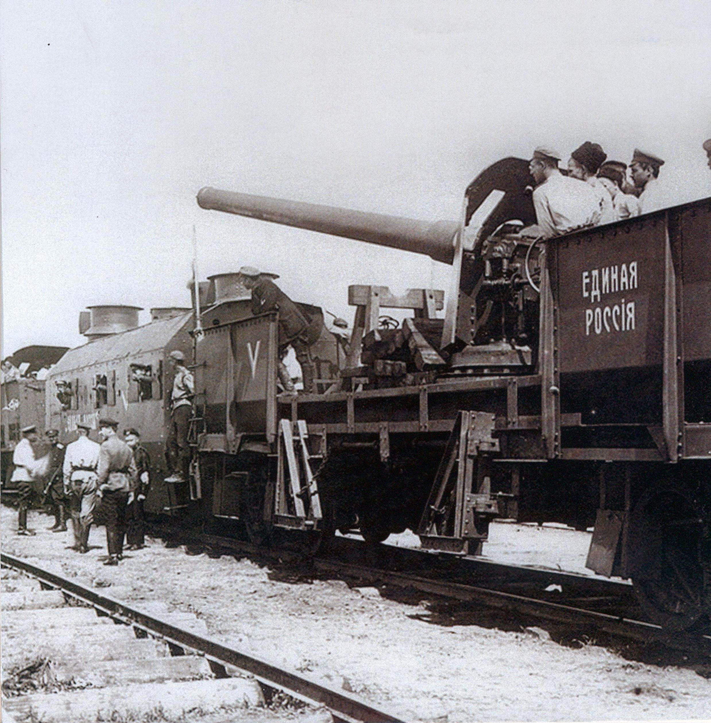 Armoured White Army train Yedinaya Rossiya (United Russia), on its way to Tsaritsyn, 15-17 June 1919. It belonged to the Volunteer Army.